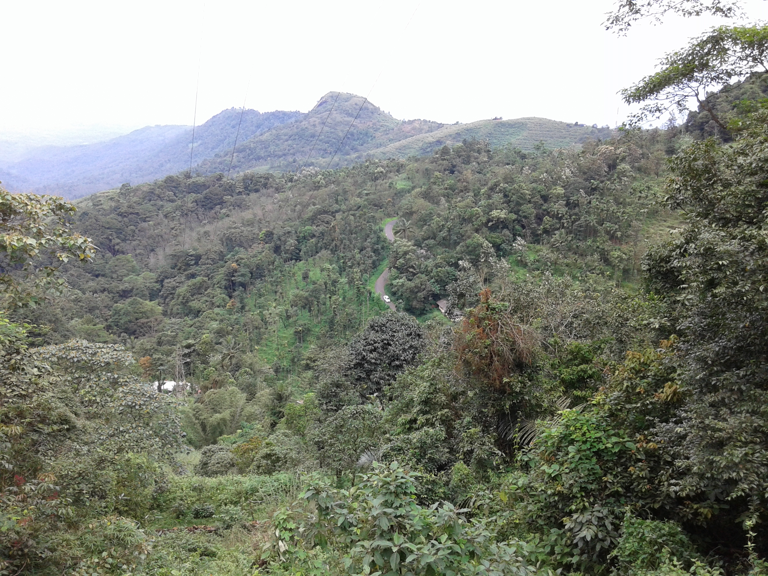 Elapeedika